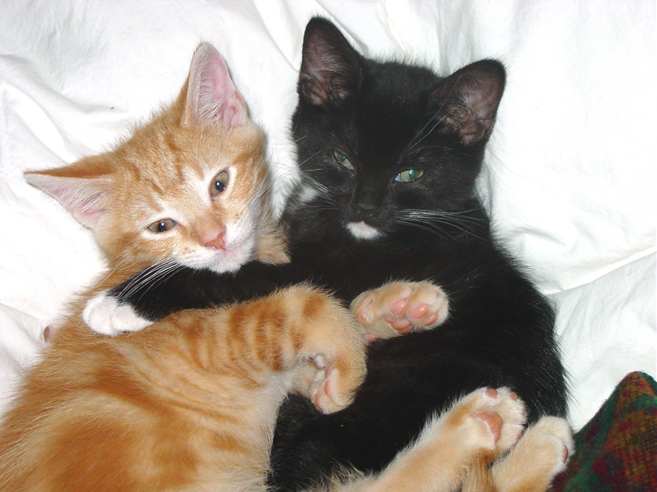 Two pampered kittens from same litter, about six weeks old, named (L-R) Harry and Stella.